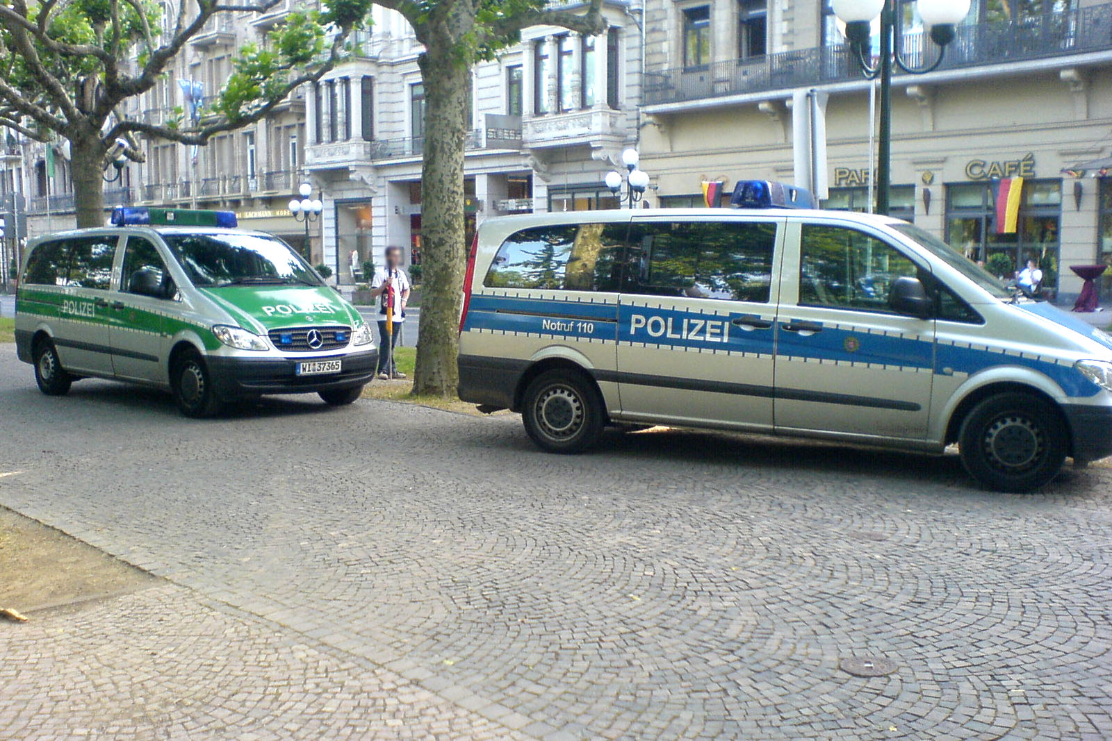 Two vans of the hessian Police, left one in green (old), right one in blue (new) colour theme.